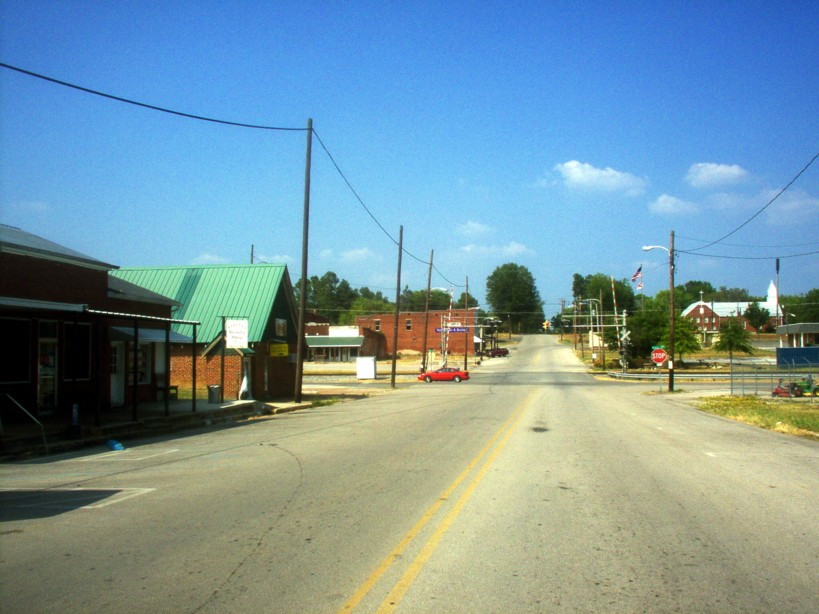 Downtown Cherokee Alabama